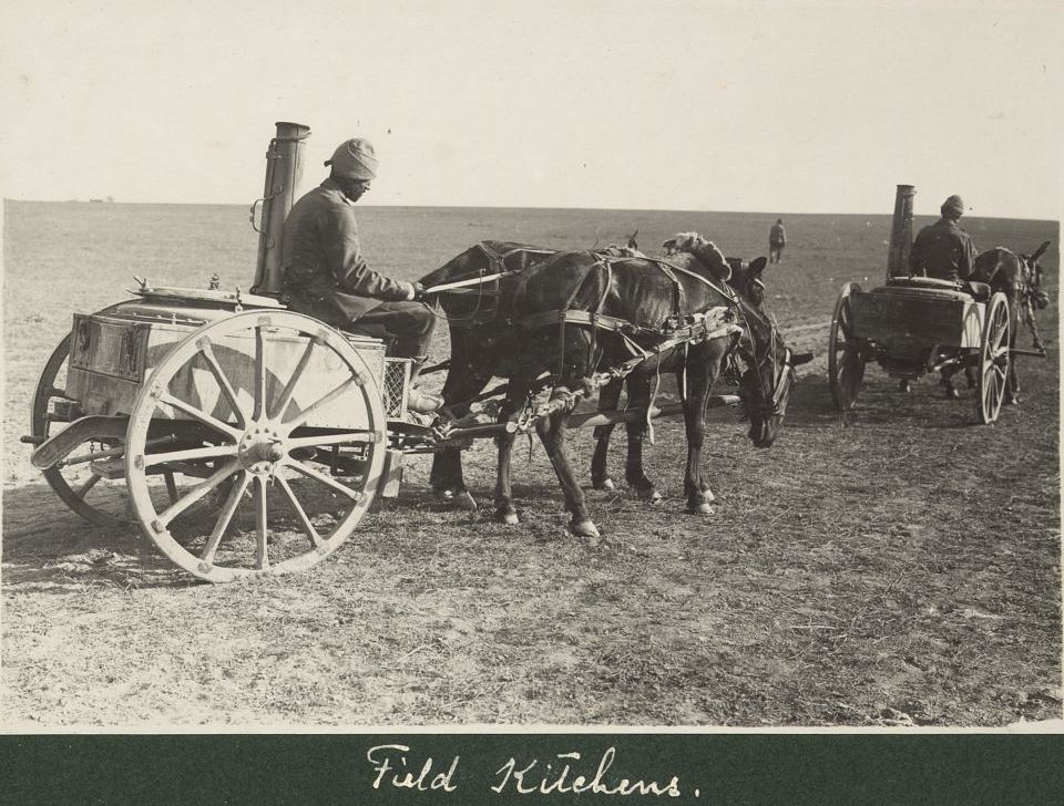 Photograph showing Ottoman army field kitchens towed by horses.